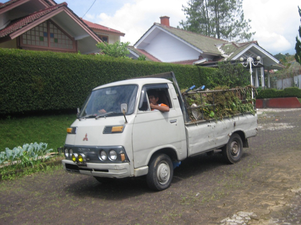 Mitsubishi Colt T120 Pick-up, photographed in West Java, Indonesia.